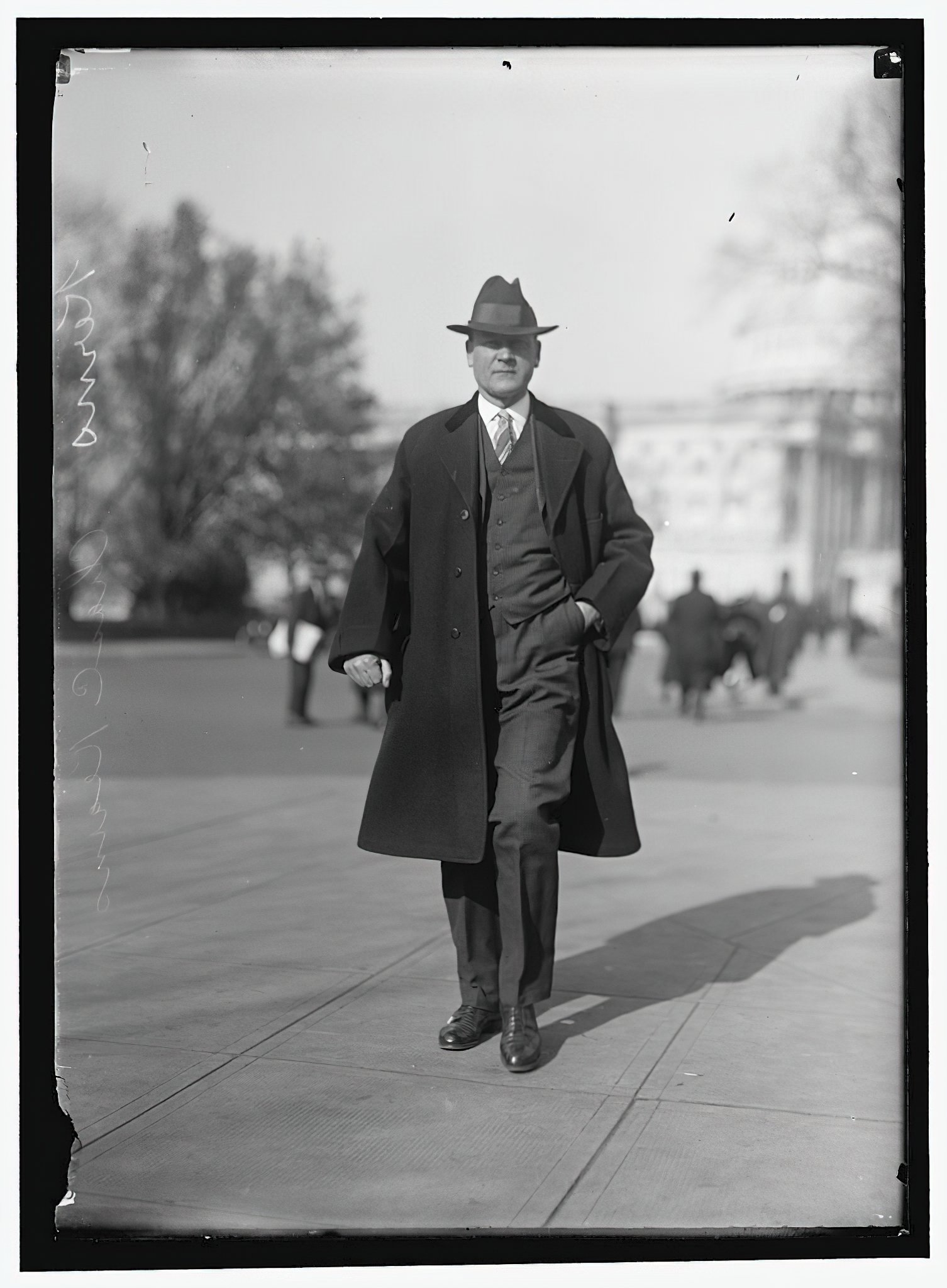 Charles Cyrus Kearns, congressman from Ohio, seen in Washington, D.C., 1916.